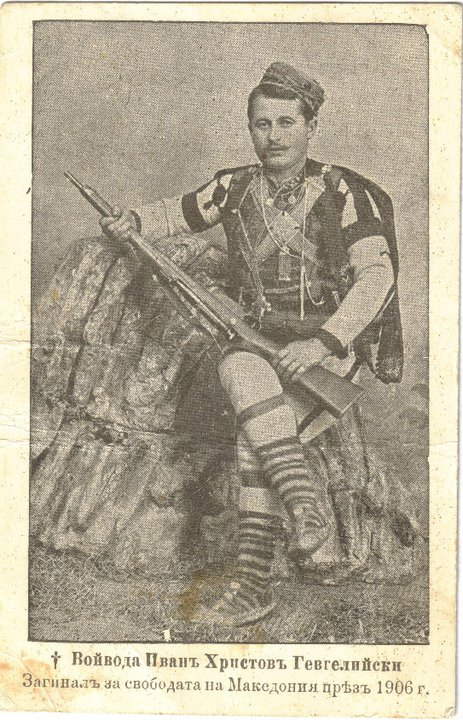 Portrait of IMARO member Ivancho Karasuliyata from Karasule